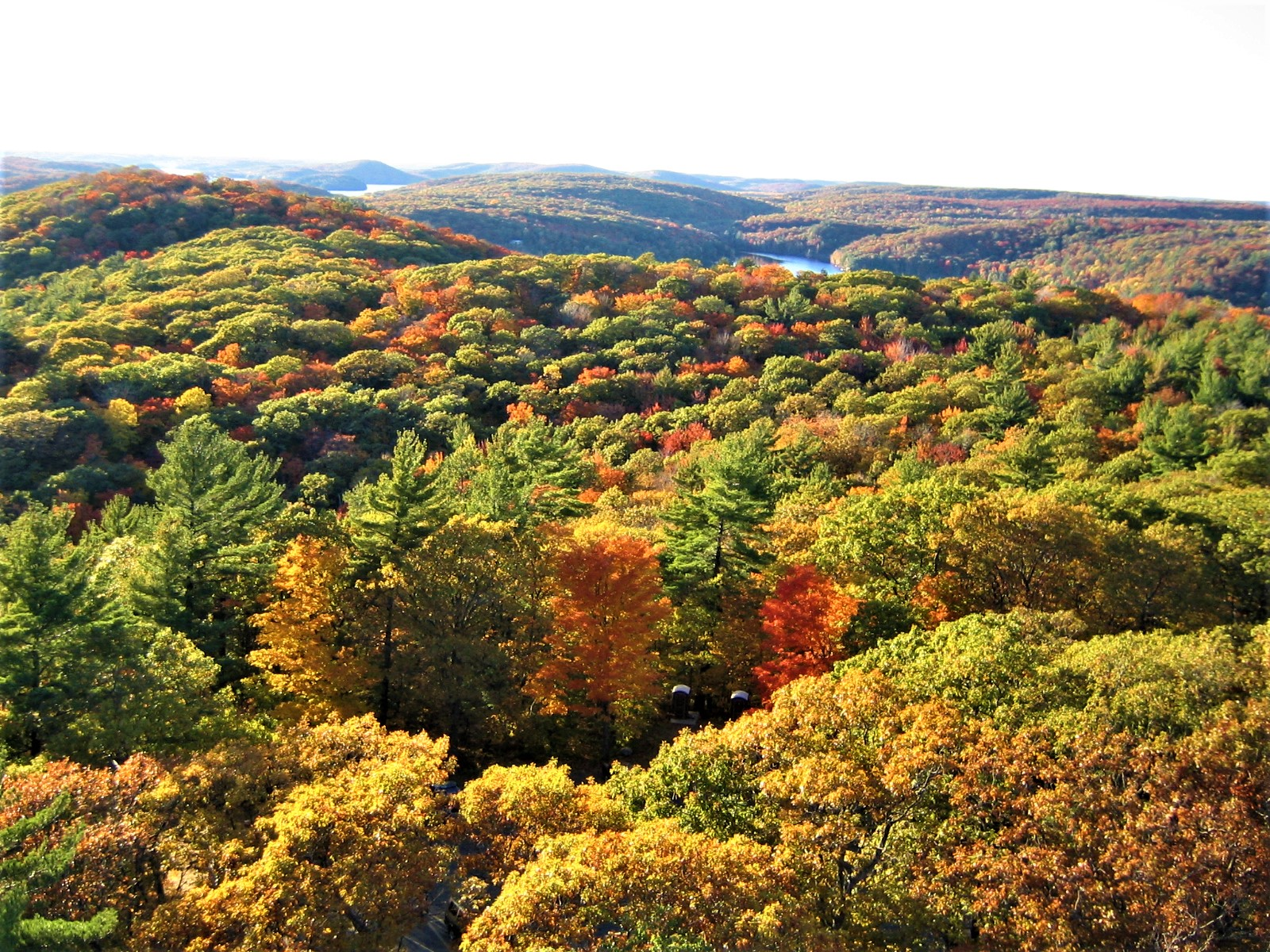 Algonquin Provincial Park- Fall Colour - Ontario This photo was taken in a protected area in Canada, Wikidata item Algonquin Provincial Park (Q1543478)